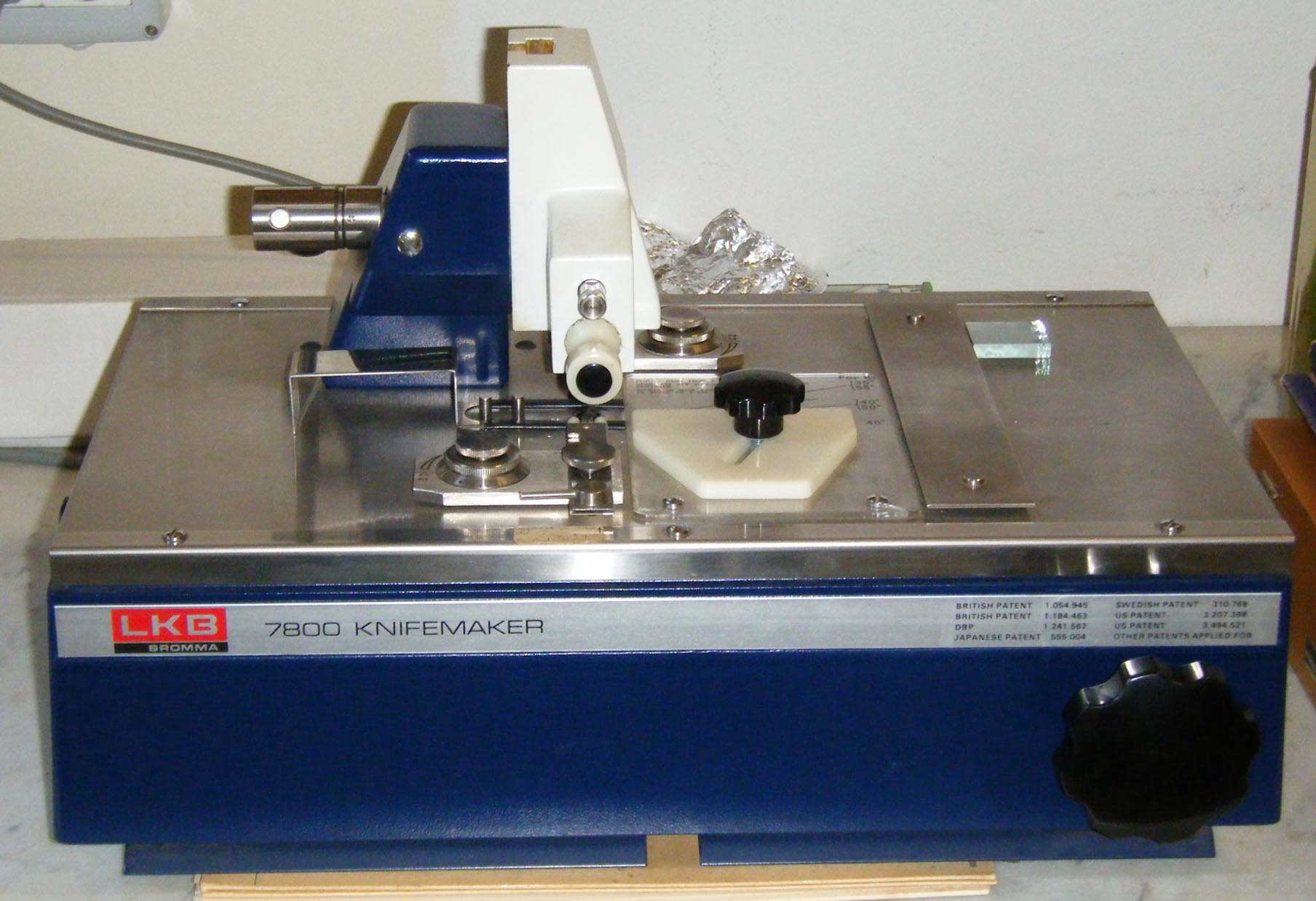 Knifemaker for ultramicrotome